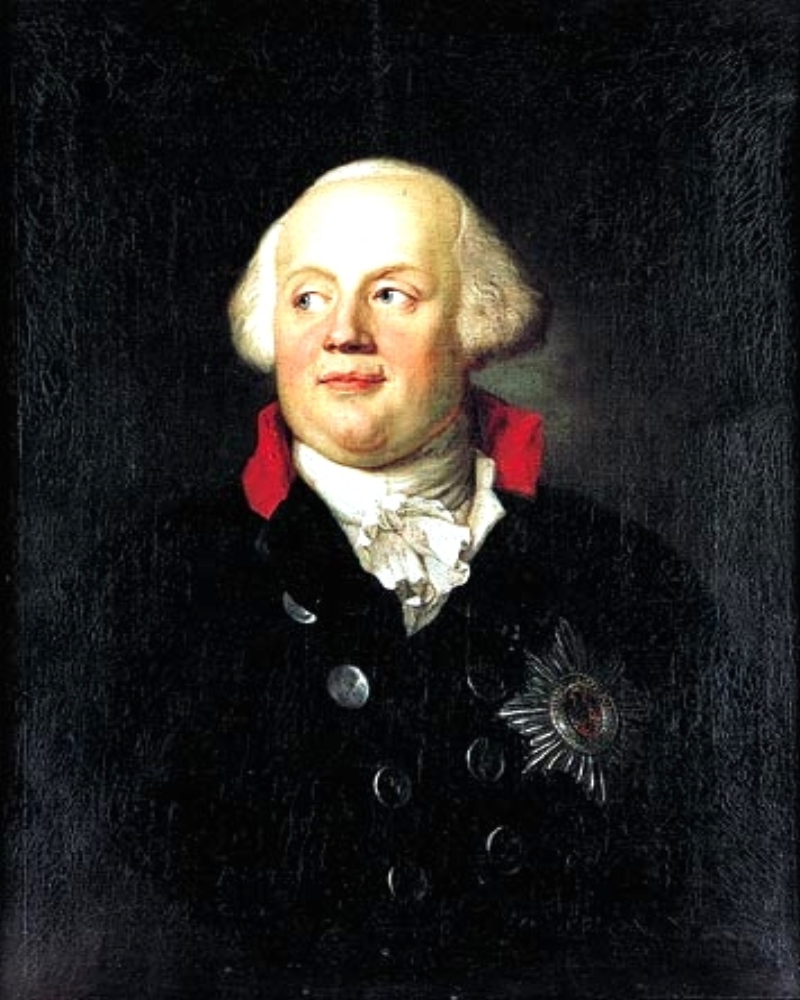 Portrait of Frederick William II of Prussia